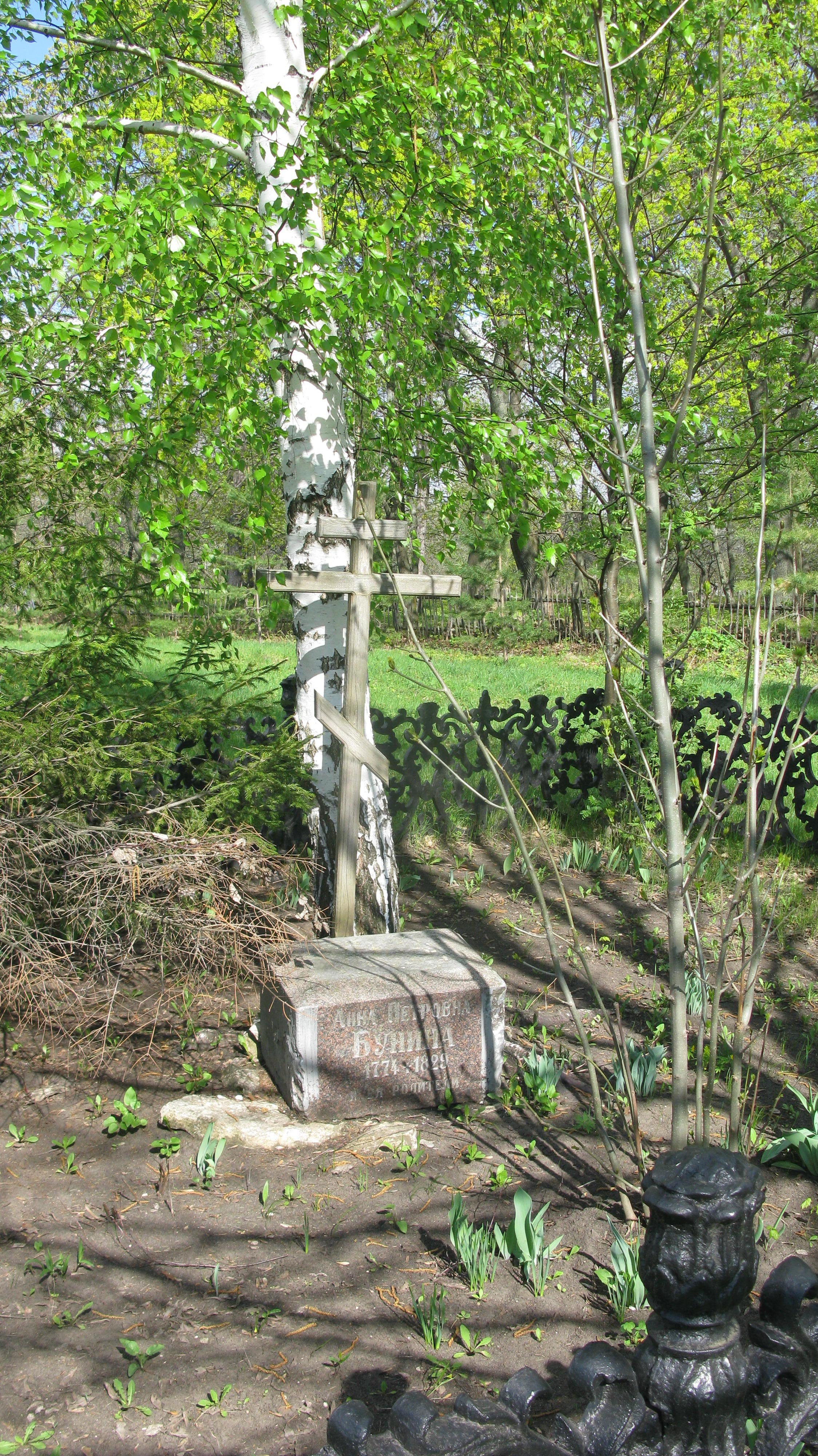 Могила Анны Петровны Буниной (The grave of Anna Petrova Bunina, Russian poet)